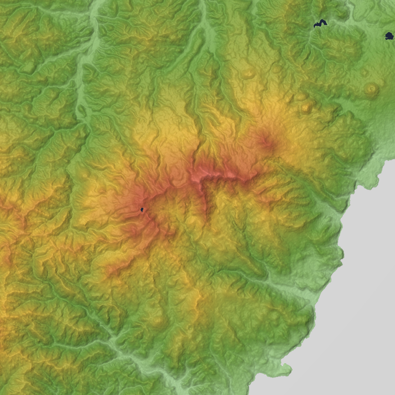 Mount Amagi is a extinct volcano in Izu Peninsula, Shizuoka Prefecture, Honshu, Japan.